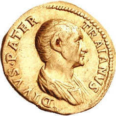 TRAJAN. 98-117 AD. AV Aureus (7.27 g, 7h). Struck 115 AD. IMP TRAIANO AVG GER DAC P M TR P COS VI P P, laureate and draped bust right, seen from behind DIVVS • PATER TRAIANVS, draped bust of Trajan's father right. RIC II 764; Strack 154; Calicó 1136; BMCRE 506 note; Cohen 3.